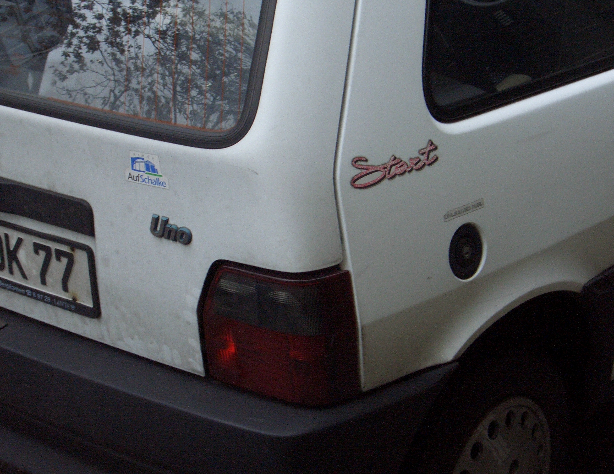 Fiat Uno Mk. 2 (1989-1993), special edition START, badge on right side of car (below rear window)